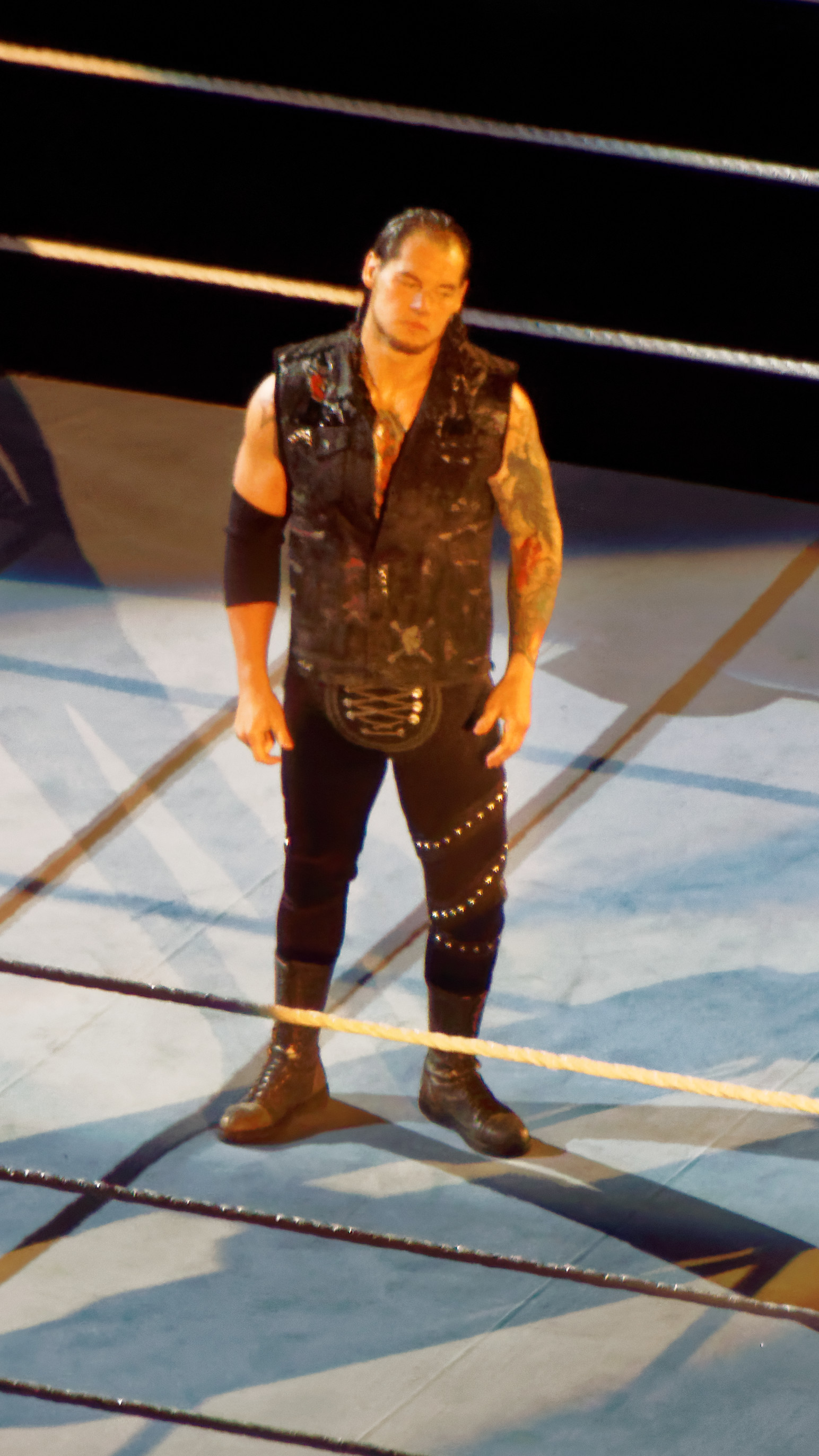 The raw after WrestleMania 32 Baron Corbin draw (DCO) Dolph Ziggler (in 08:32)